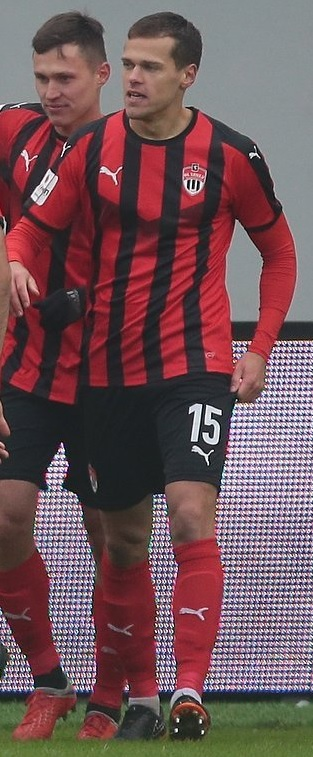 Yegor Danilkin with FC Khimki in a game against FC Zenit-2 Saint Petersburg.